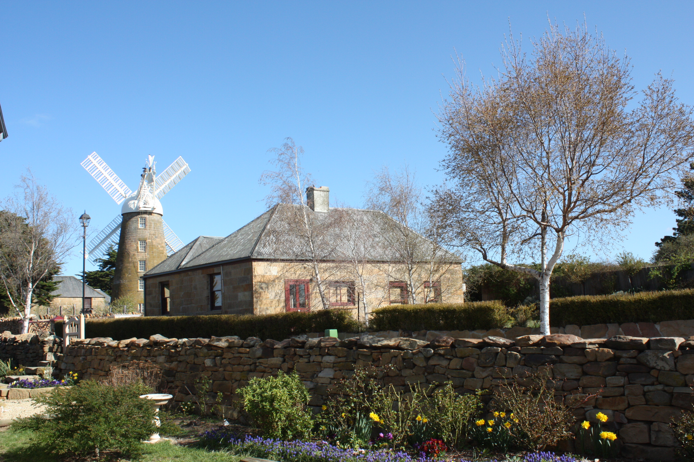 Oatlands is little village situated in the Table land between Hobart and Launceston. Ancient station on the way under the central Tasmania. This windmill was built from 1837 by the western people come here .All building are built with local sandstone cuted